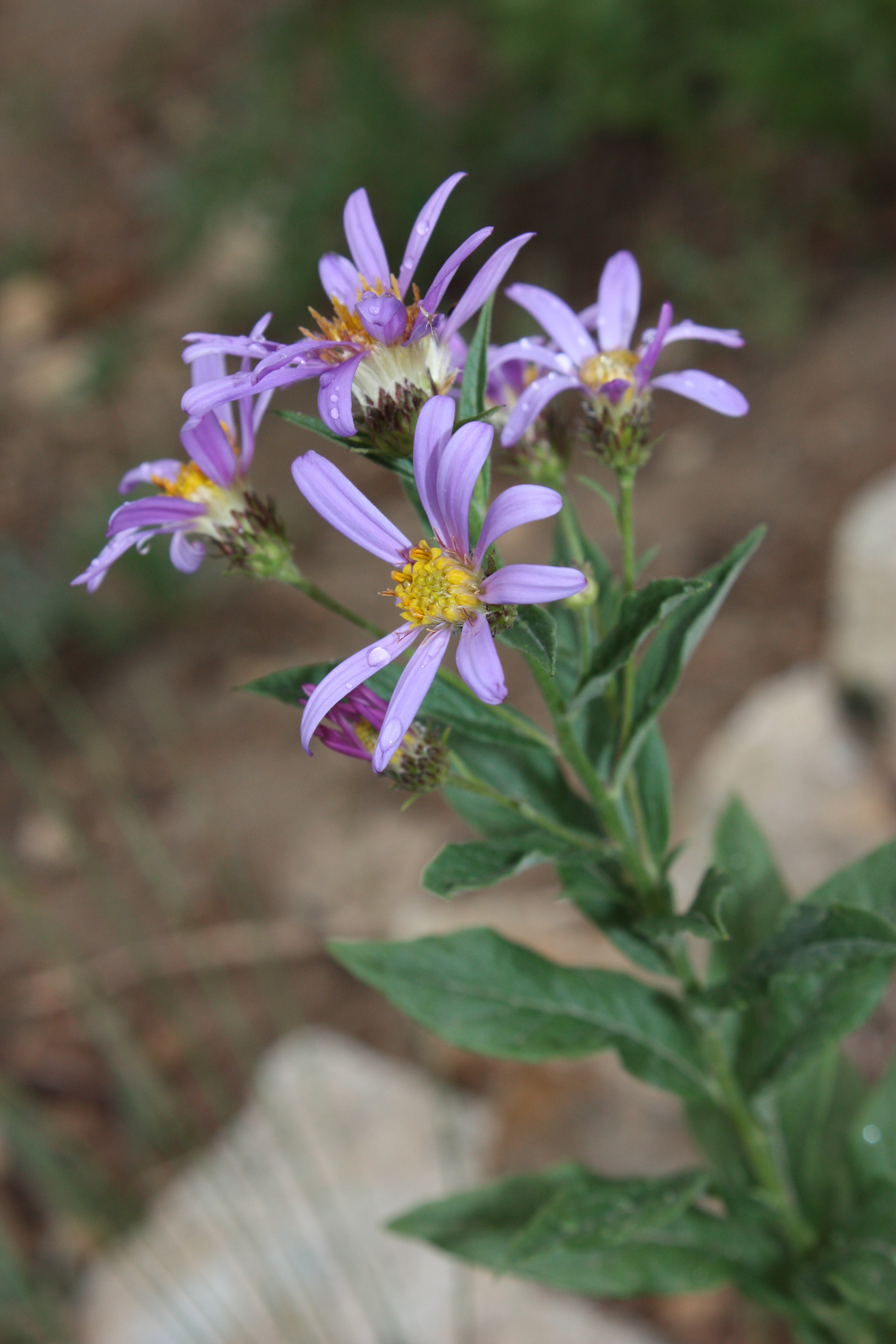 Cascade Aster